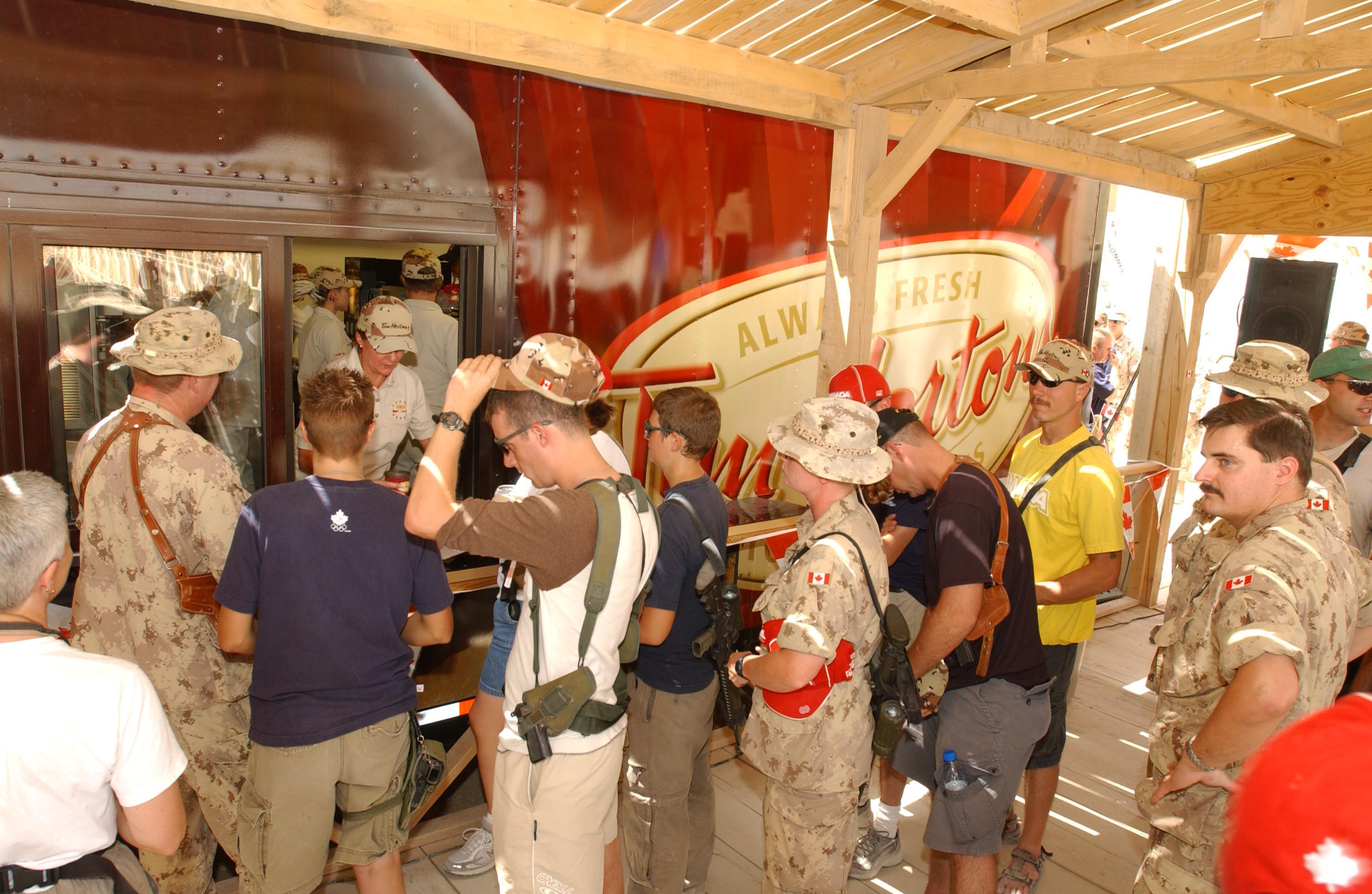 Canadian troops line up at the service window of Tim Hortons directly following a ceremony commemorating the opening of the first Tim Hortons in Afghanistan.